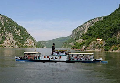 Romanian paddle steamer on the River Danube at the Iron Gate